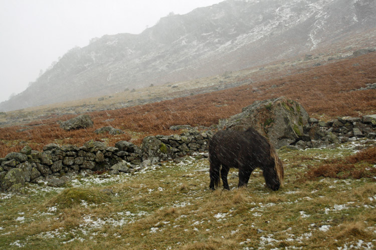 This poor fellow was on the fells at Mungrisdale, Cumbria today - like me, he was braving blizzard conditions. And like me he ended up completely soaked! I thought he was a fell pony but am now reliably informed he's a Shetland pony.